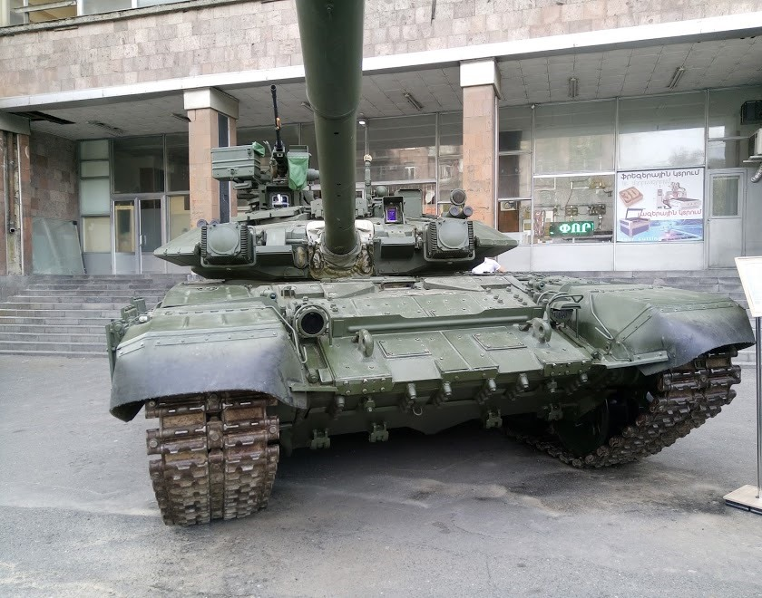 T-90S tank in Armenia at the Defense expo in Yerevan